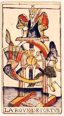 An original card from the tarot deck of Jean Dodal of Lyon, a classic Tarot of Marseilles deck which dates from 1701-1715.